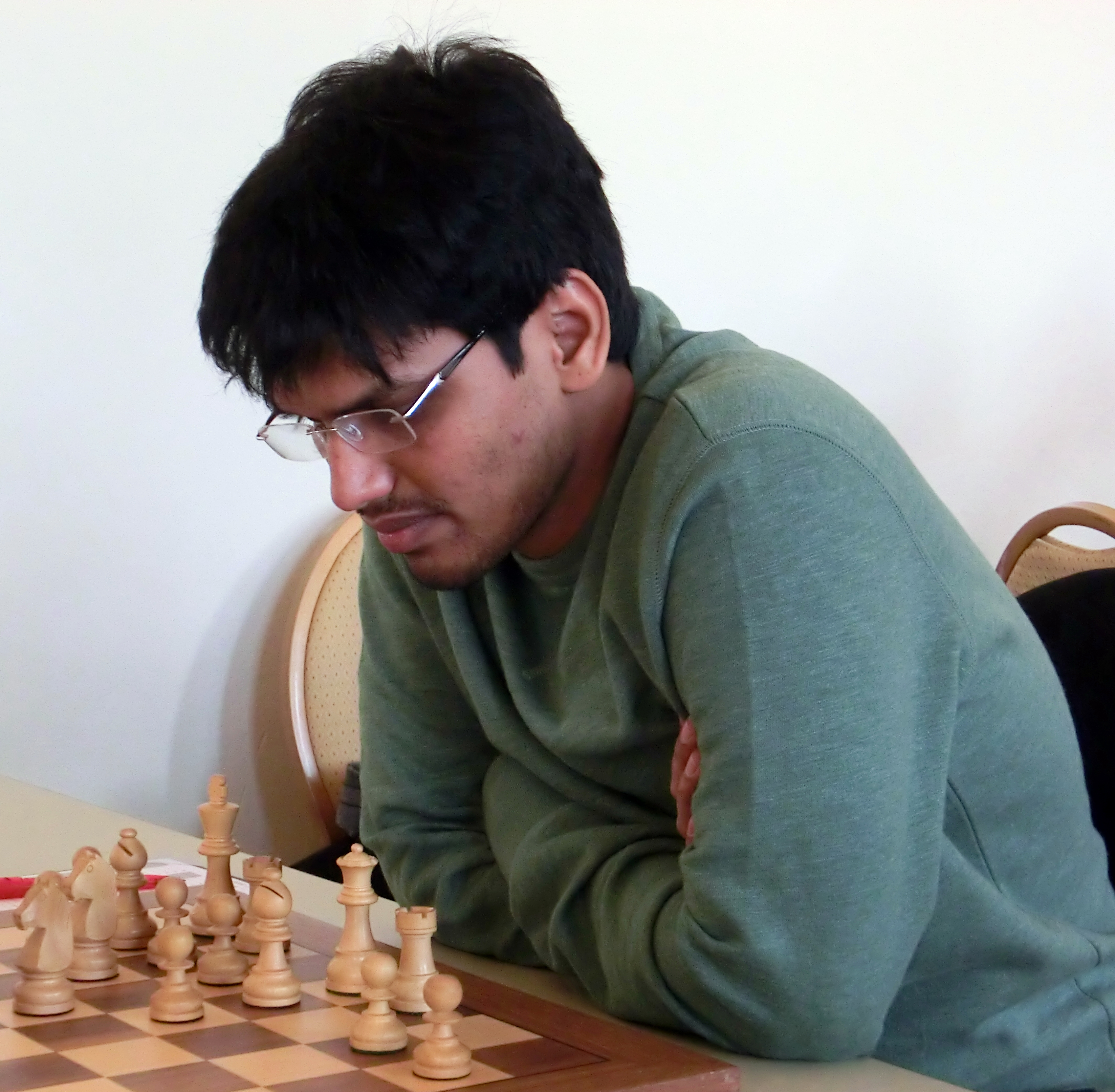 Pentala Harikrishna, chess grandmaster from India